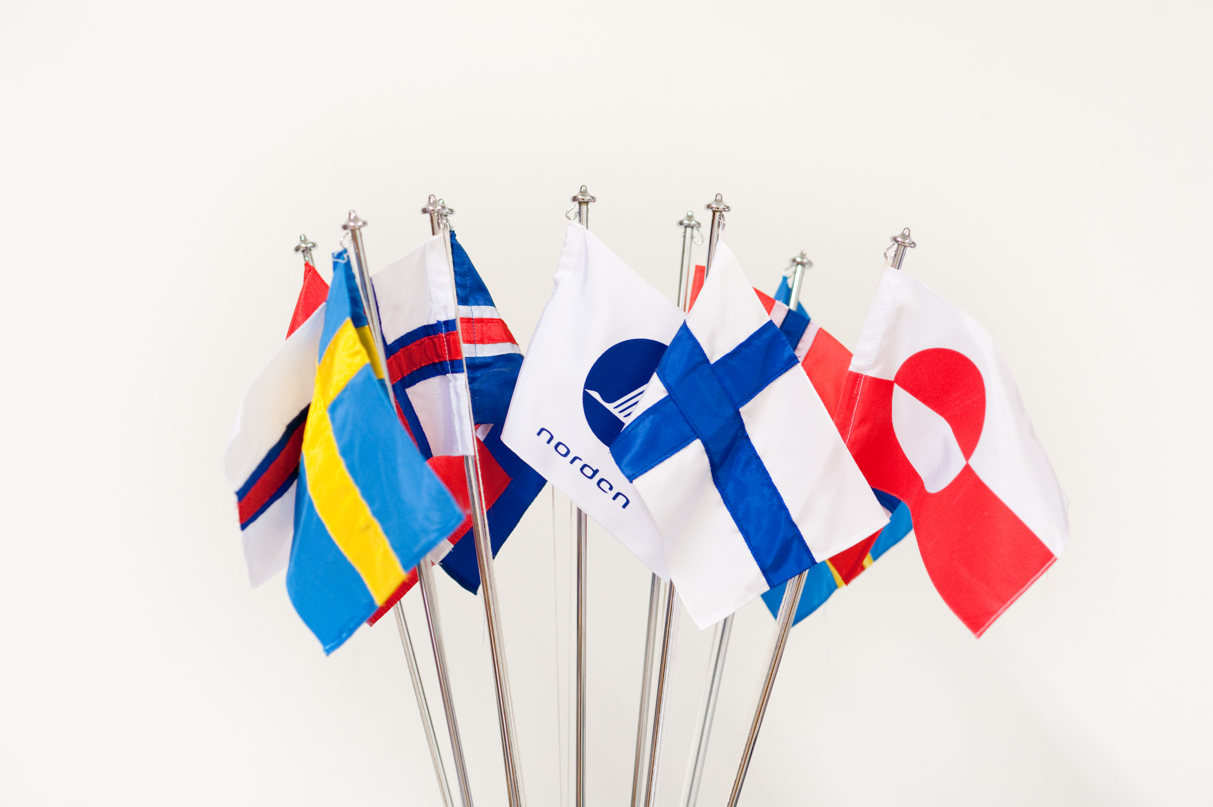 Photo of Scandinavian region flags